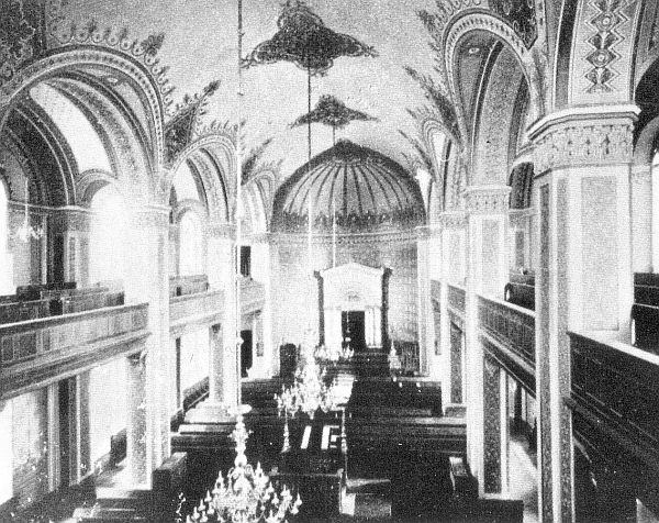 kassel synagoge inner